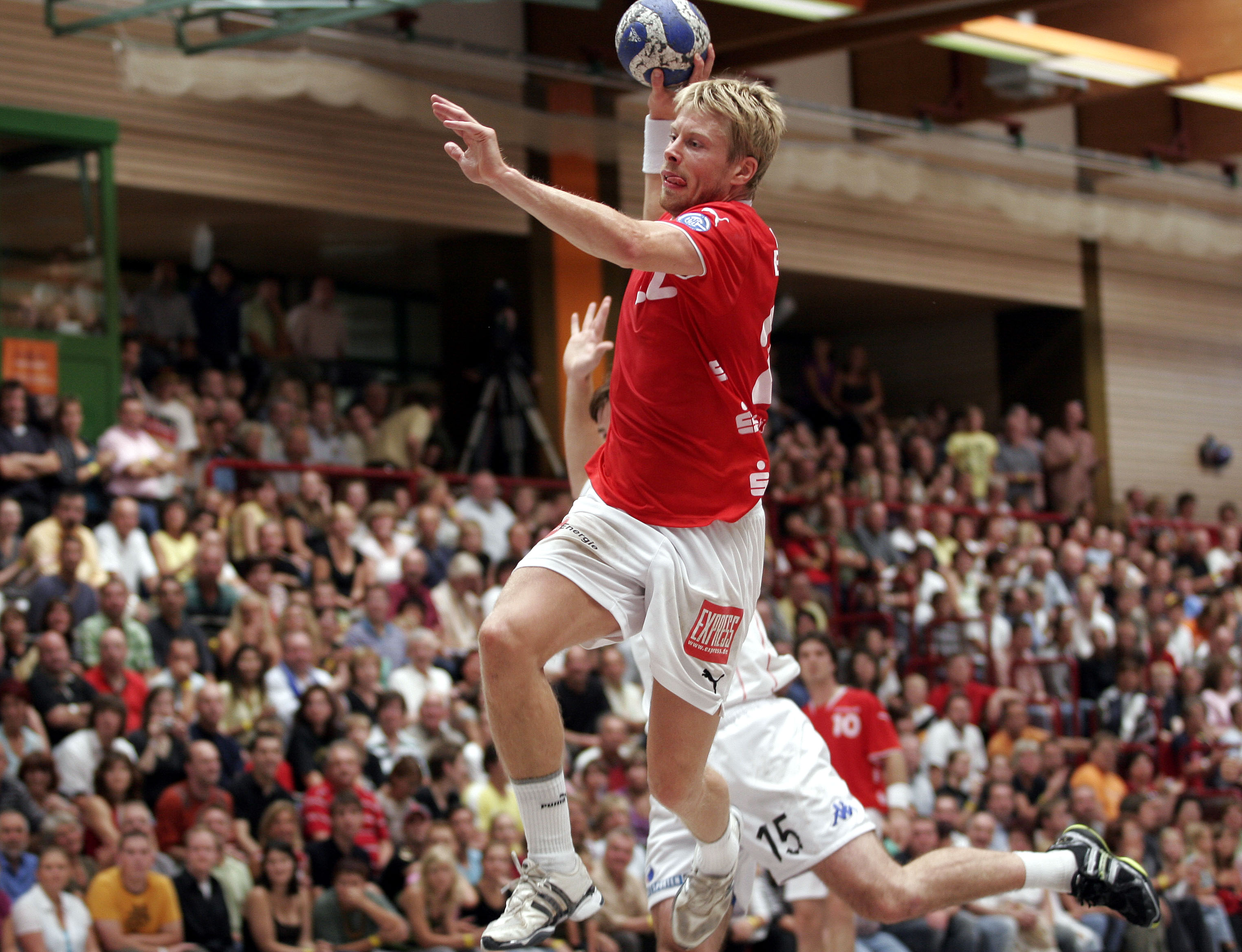 Guðjón Valur Sigurðsson, handball player from Iceland, during the Schlecker Cup 2007 in Ehingen (Germany)